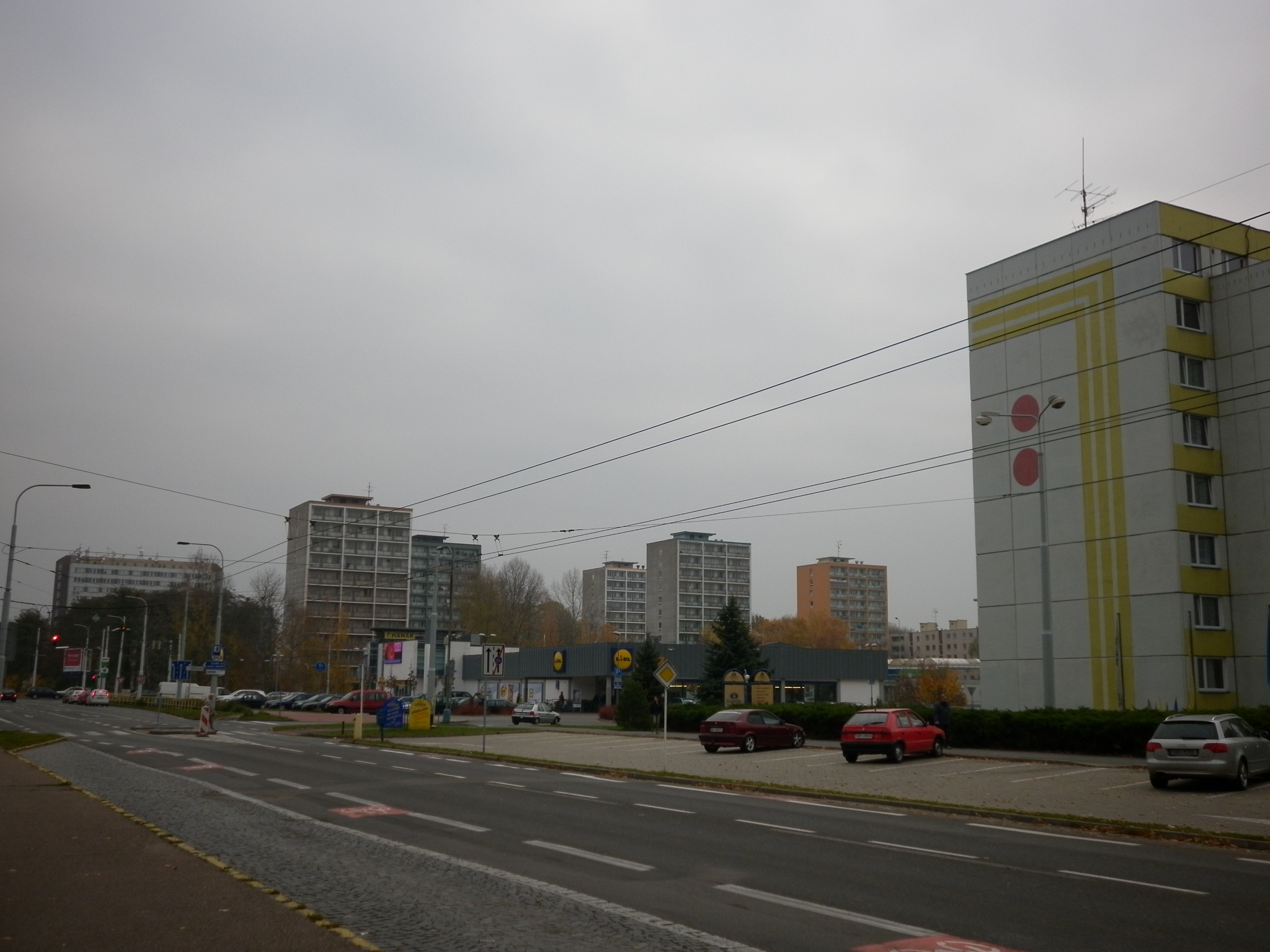 Polabiny, a city neighbourhood of Pardubice located on the right bank of Elbe river. Concrete buildings ("panelák") mainly from the communist era. Bělehradská Street.